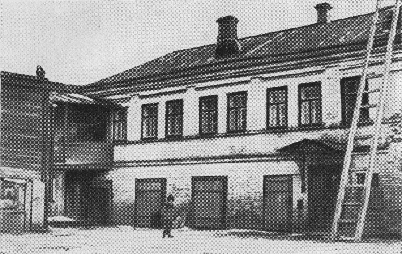 Politician of the USSR. Yakov_Sverdlov (1885-1919)